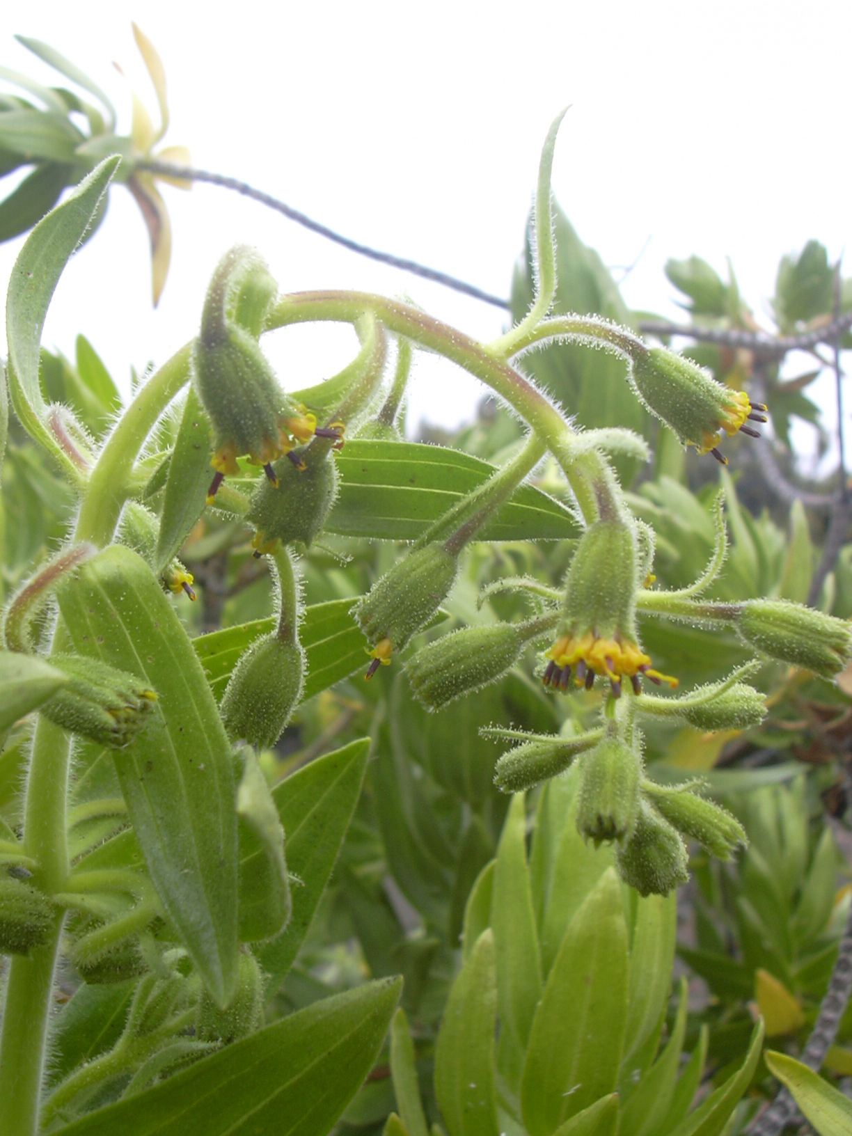 Dubautia arborea (flowers). Location: Hawaii, Puu Kole